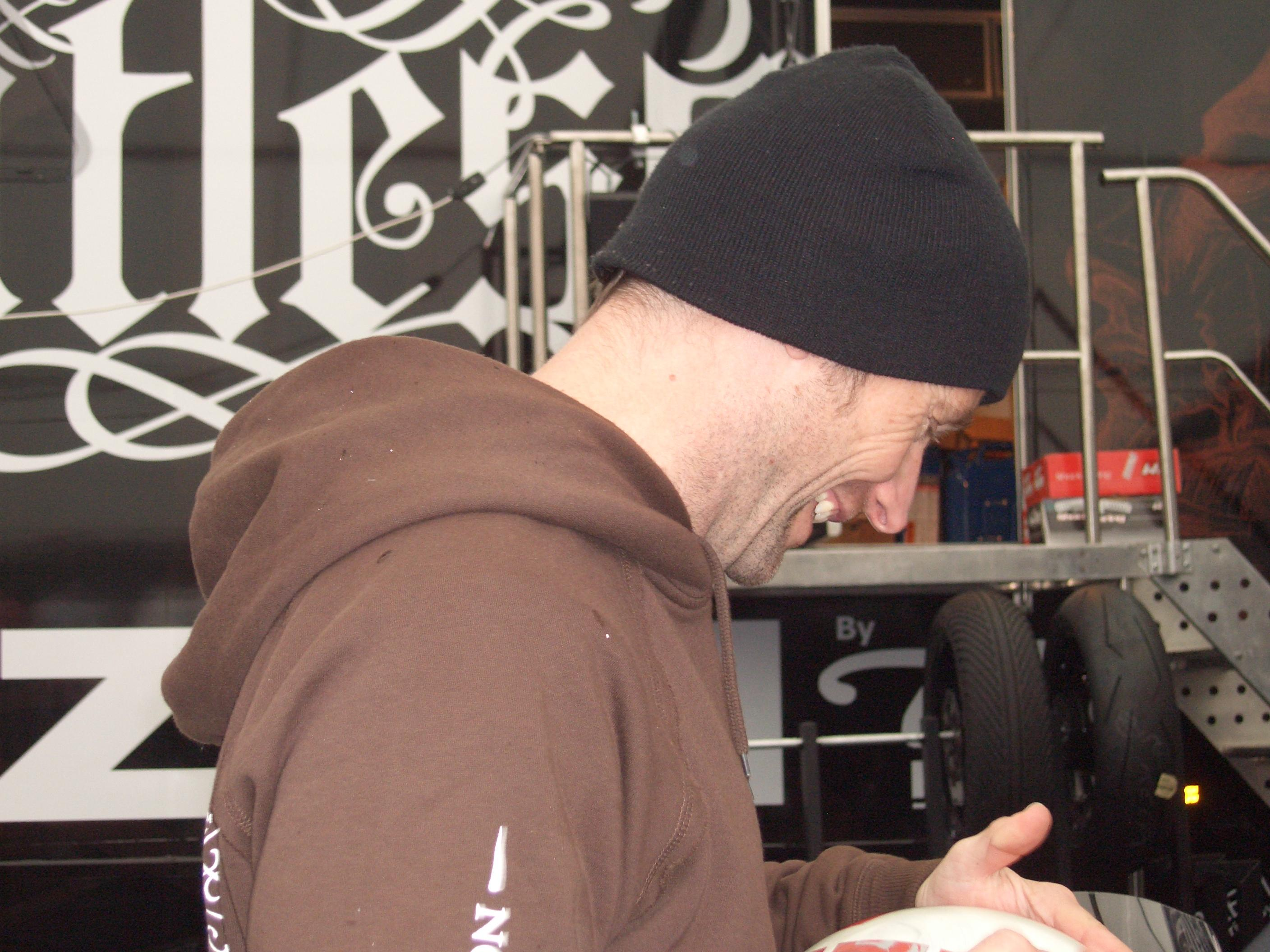 Bruce Anstey at the NW200